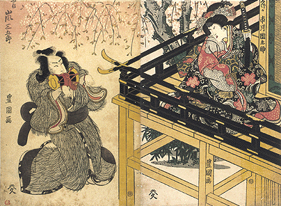 Sangorō Arashi III as Tadanobu, Dannosuke Ichikawa III as Shizuka, in “Yoshitsune Senbon Zakura” by Toyokuni Utagawa